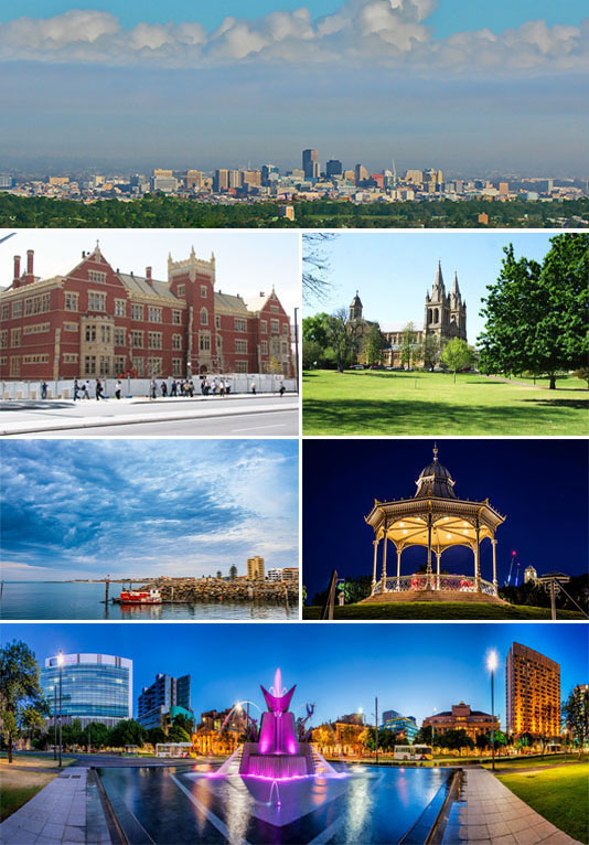 File:Adelaide skyline in 2010.jpg Adelaide, by Kyle Taylor File:UniSA North Terrace.jpg UniSA, by Al and Marie File:St Peter's Cathedral, Adelaide.jpg, St Peter's Cathedral, by Samantha File:After the Storm HDR (8250220384).jpg After the storm, by Ikhwan Zailan File:Adelaide rotunda.jpg Adelaide rotunda by Creolumen File:Victoria Square, central Adelaide.jpg, Victoria Square by Silveryway